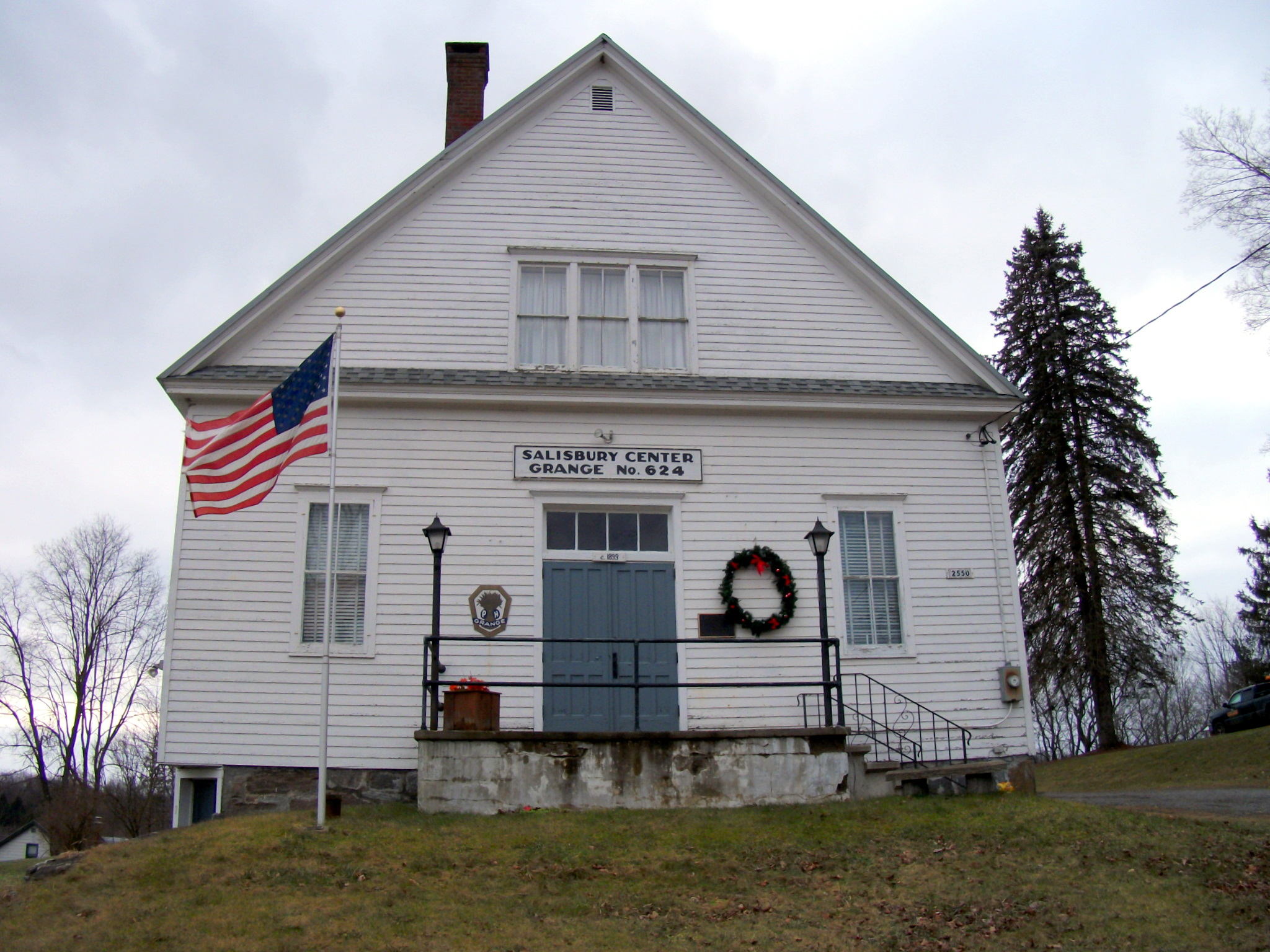 Salisbury Center, New York Camera: Fujifilm FinePix AX200 License on Flickr (2011-01-07): CC-BY-SA-2.0 Flickr tags: Salisbury Center, New York, upstate, central new york, house, church